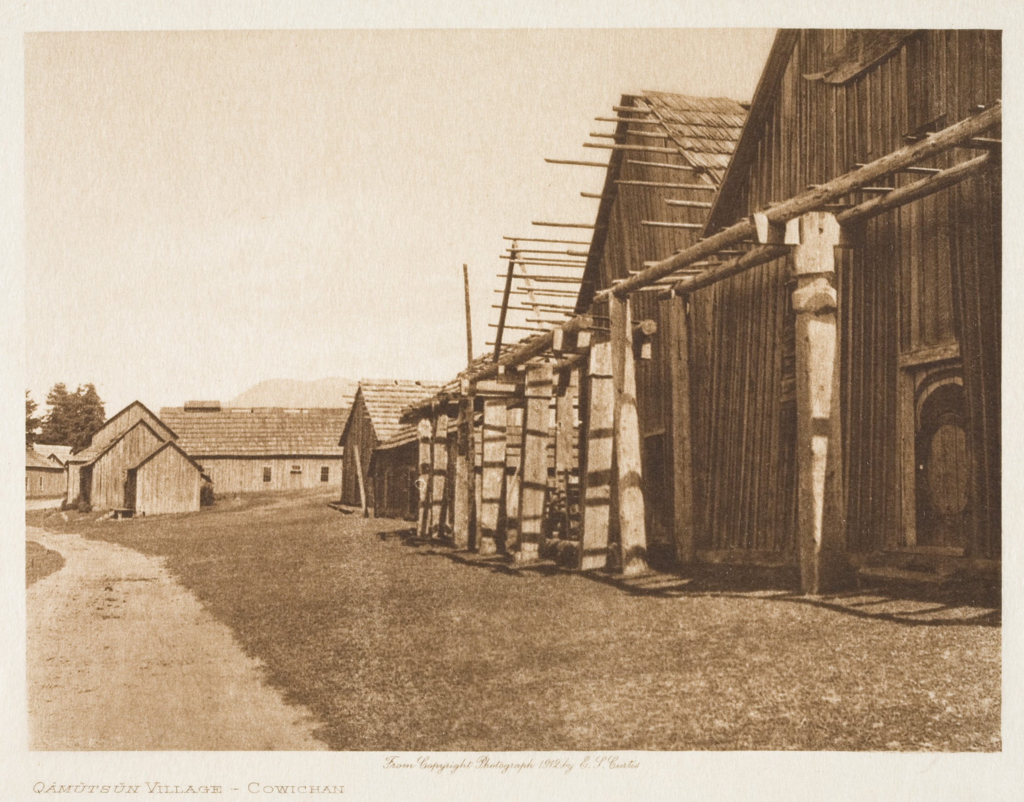 United States, 1912 Photographs Photogravure on tissue Gift of Mark and Pam Story (AC1997.271.25) Photography